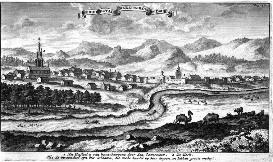 Three years travels from Moscow over-land to China : thro' Great Ustiga, Siriania, Permia, Sibiria, Daour, Great Tartary, etc. to Peking ; containing an exact and particular description of the extent and limits of those countries, and the customs of the barbarous inhabitants; with reference to their religion, government, marriages, daily imployments, habits, habitations, diet death, funerals ... to which is annex'd an accurat description of China, done originally by a chinese author